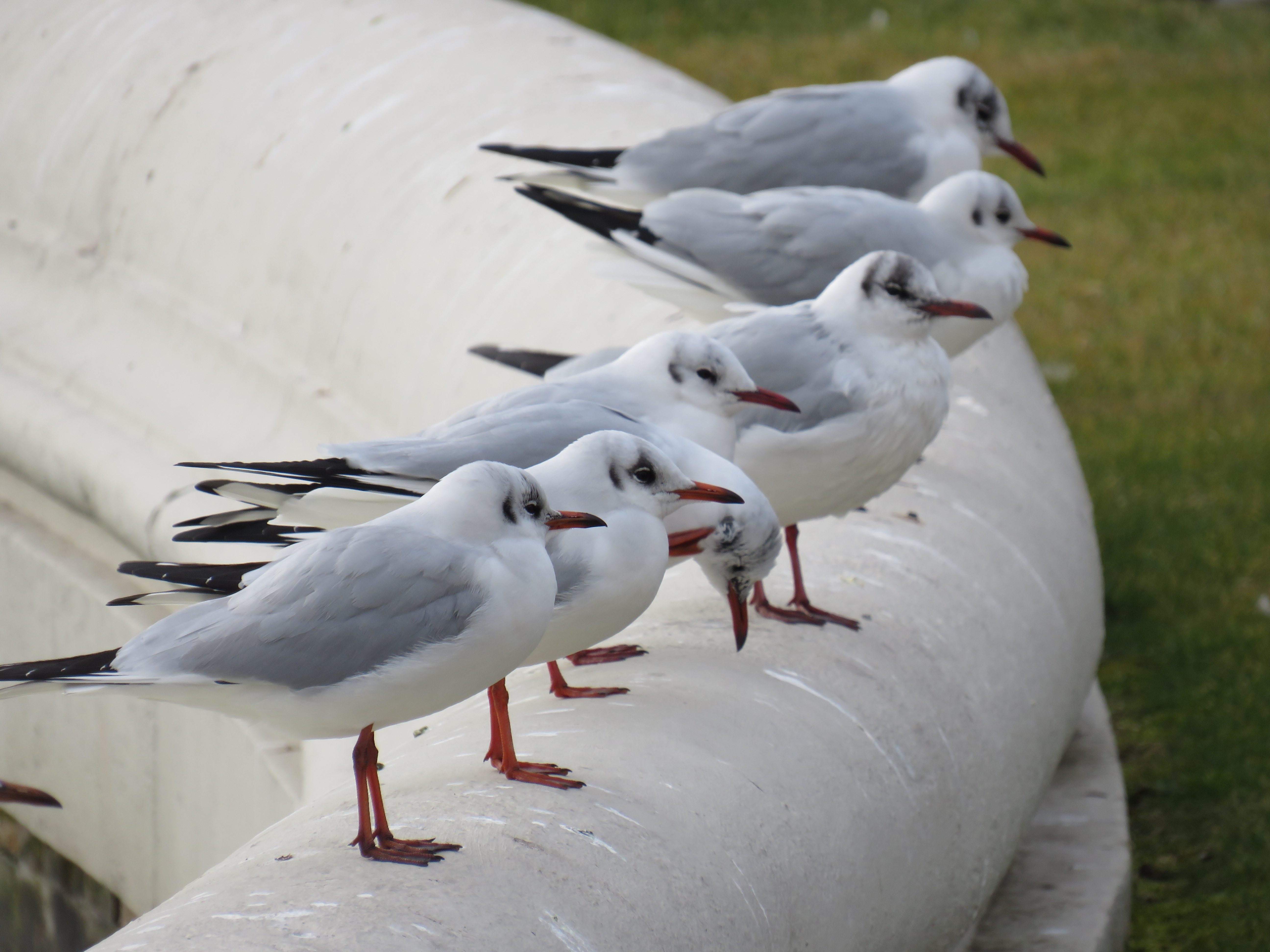 Flock of Chroicocephalus ridibundus (black-headed gull), with winter plumage, in Vienna, Austria.